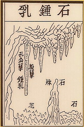 Cave decorations figure drawn in 1596